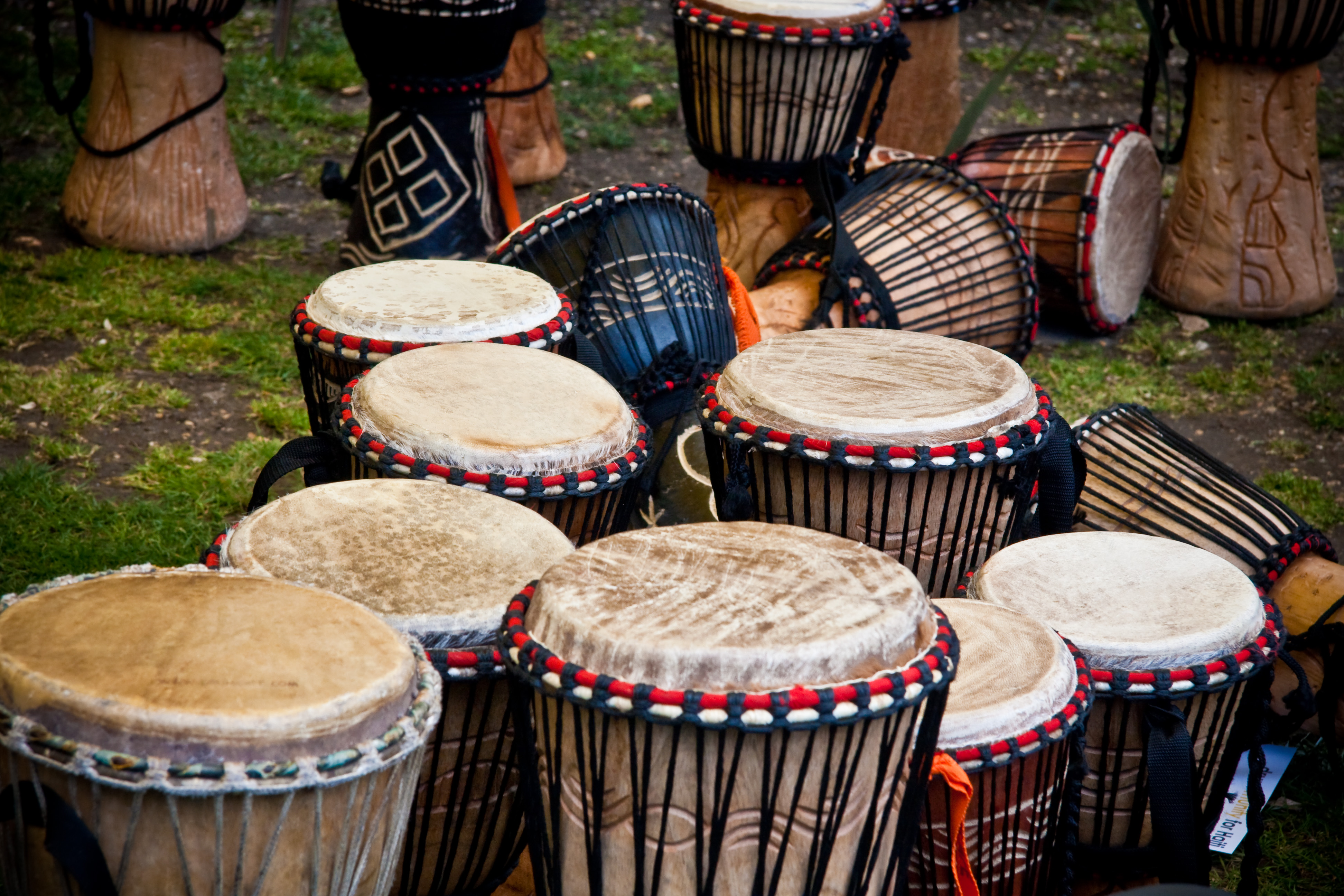 Bongos left after a drumming session at the May Merrie festival at Kingston.